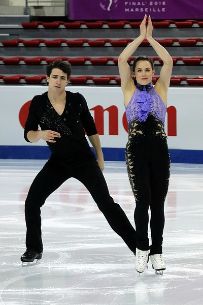 Tessa Virtue and Scott Moir at the 2016 Grand Prix Final